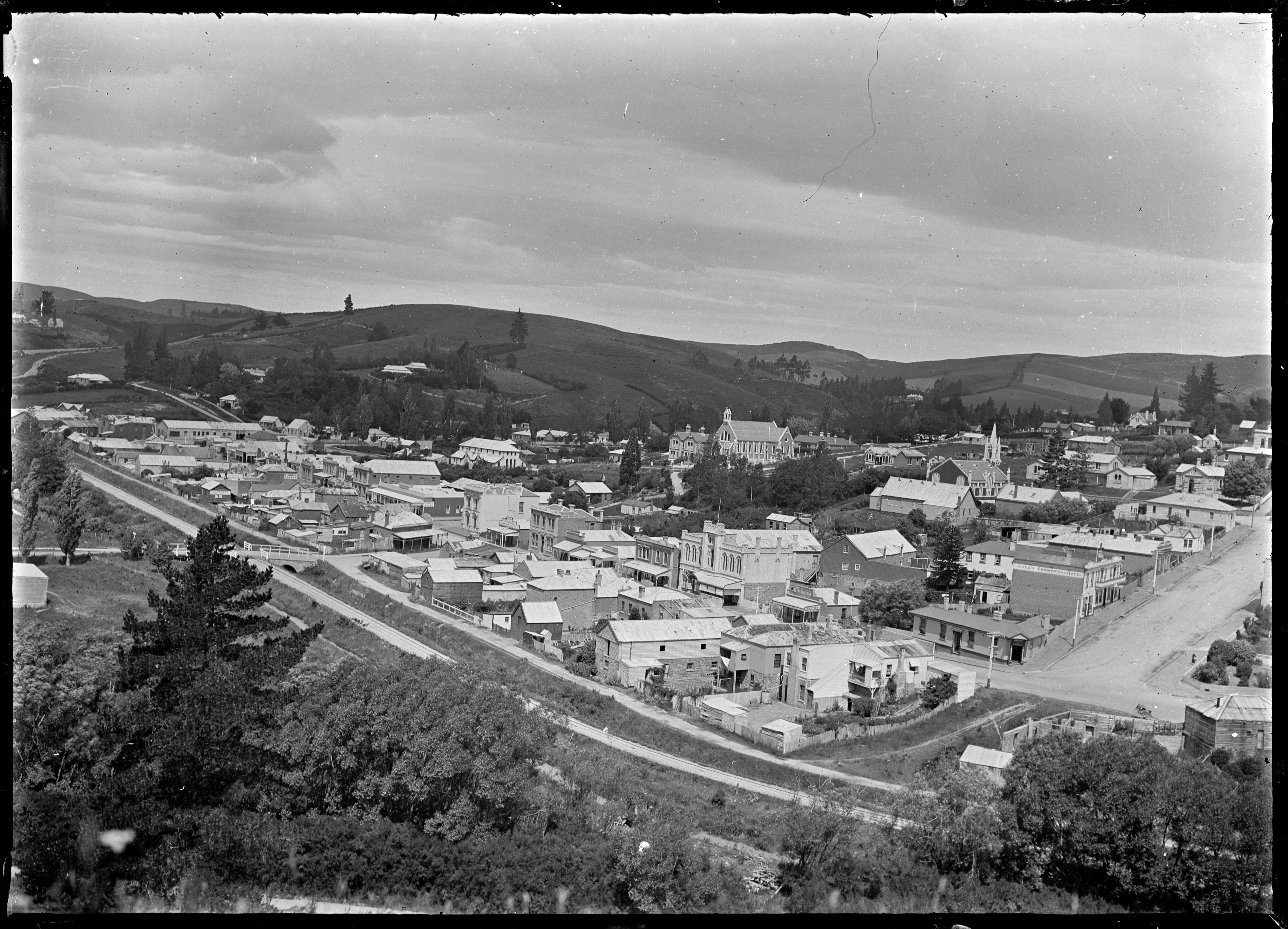 View of Lawrence in the Clutha District. Photograph taken by Albert Percy Godber in 1926.